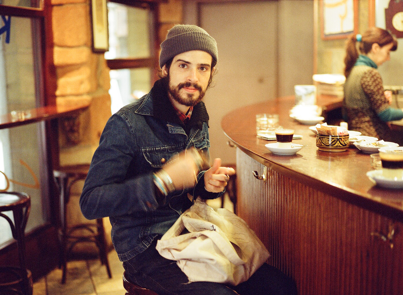 Devendra Banhart